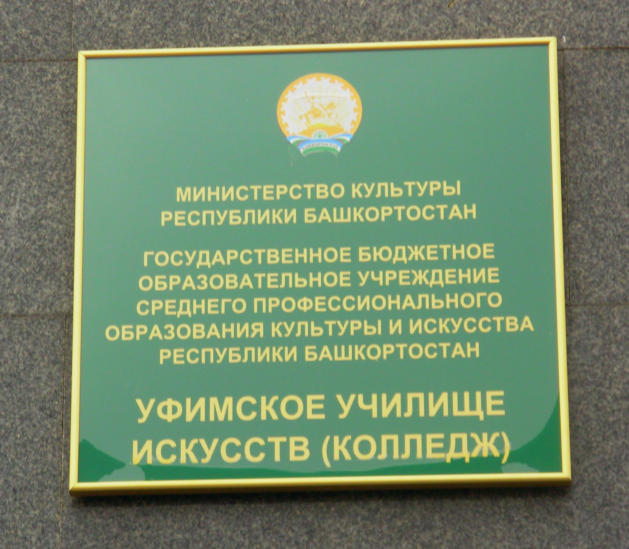 Уфимское училище искусств